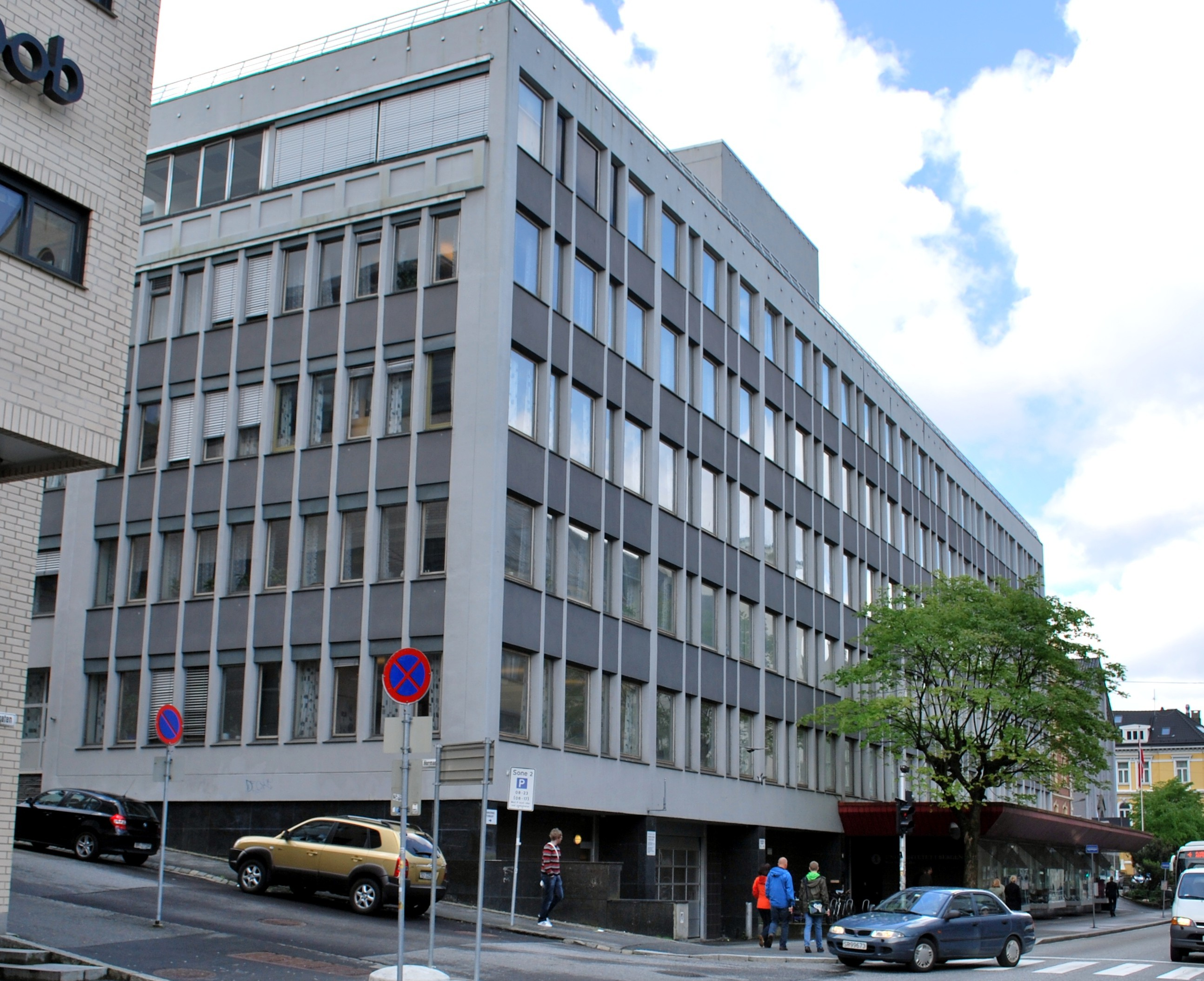 Stein Rokkans hus, University of Bergen.